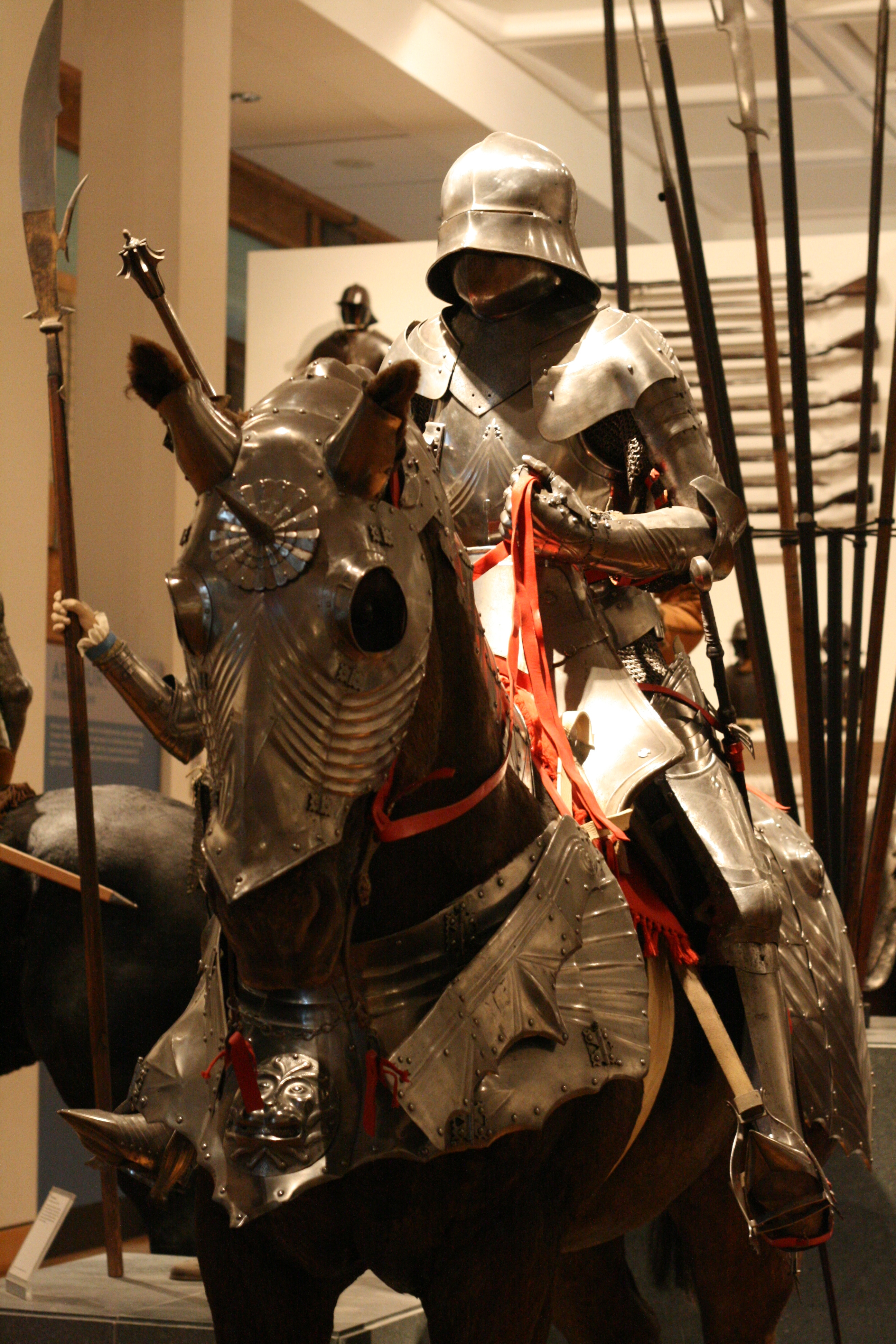 Gothic armor for horseman and steed, late 15th century, Royal Armories Museum in Leeds, UK